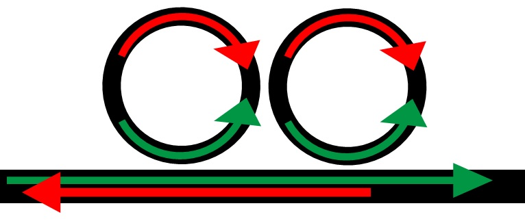 Optical mirror made of a double ring coupled to a waveguide. Forward propagating waves in the waveguide (green) couple to anti-clockwise traveling waves in the rings (green). Due to the inter-ring coupling, these waves couple to clockwise traveling waves in the rings (red), which in turn generate backward (reflected) waves in the waveguide (red).